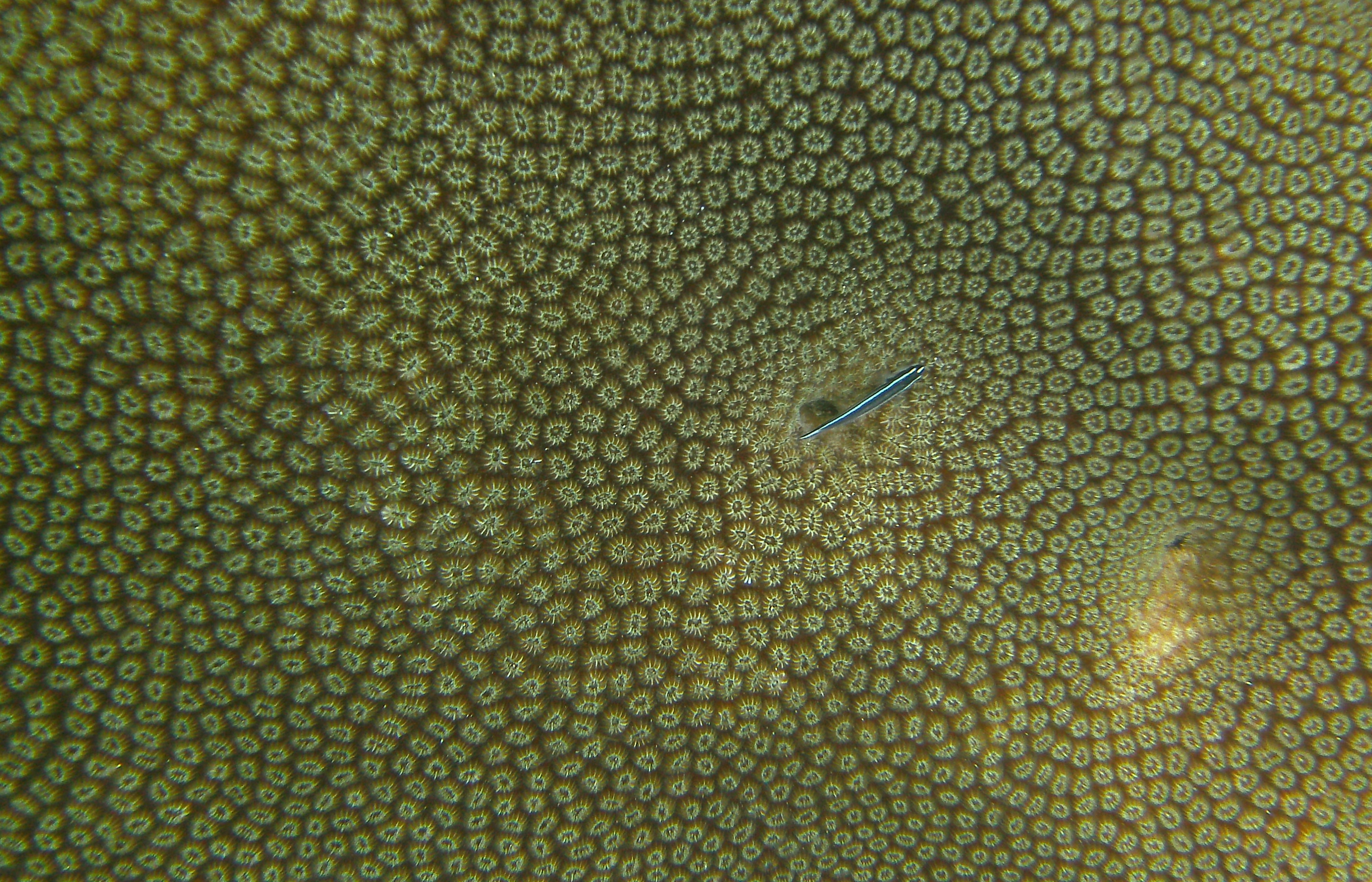 Coral and fish observed at dive around Isla Aguja, Parque Nacional Natural Tayrona, from Taganga, Santa Marta, Colombia